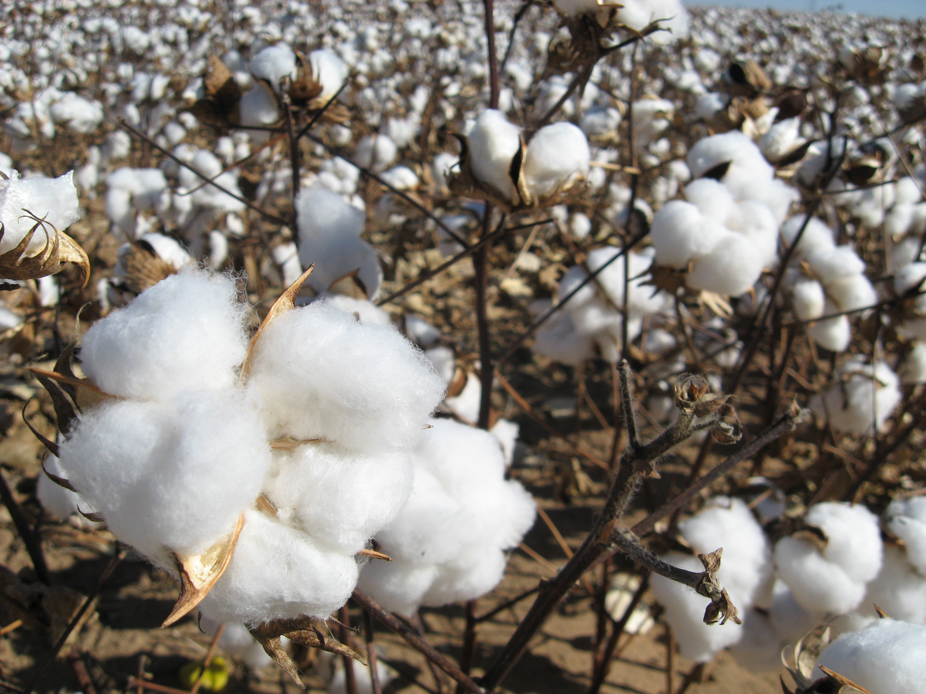 A cotton field in Texas, USA